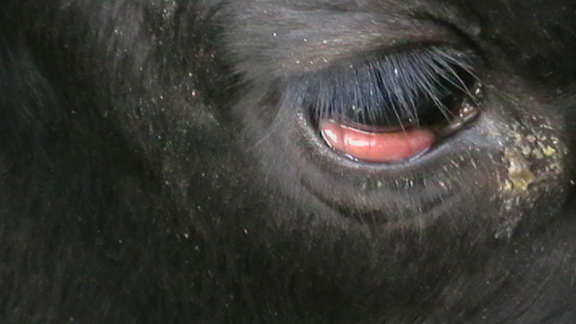 Cunjunctival prolapse (maybe due to retro-ocular lymph node enlargement as in Bovine leucosis) Walon: Foûboutaedje del fine pea di l' ouy (come divins l' leucôze des bovrins)